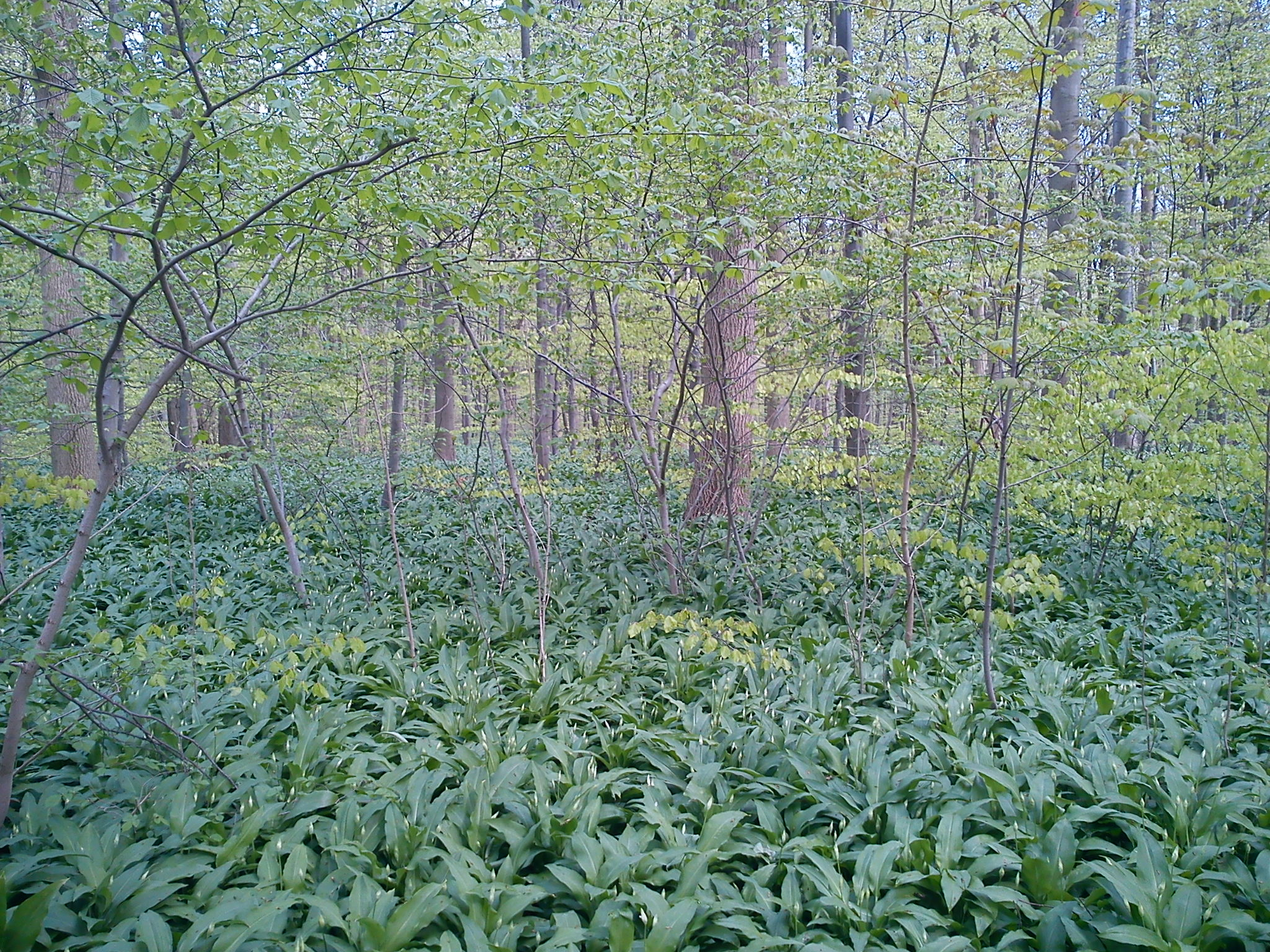 The forest of Riis Skov in May. The trees burst into leaf and the forest floor is covered by ramsons.